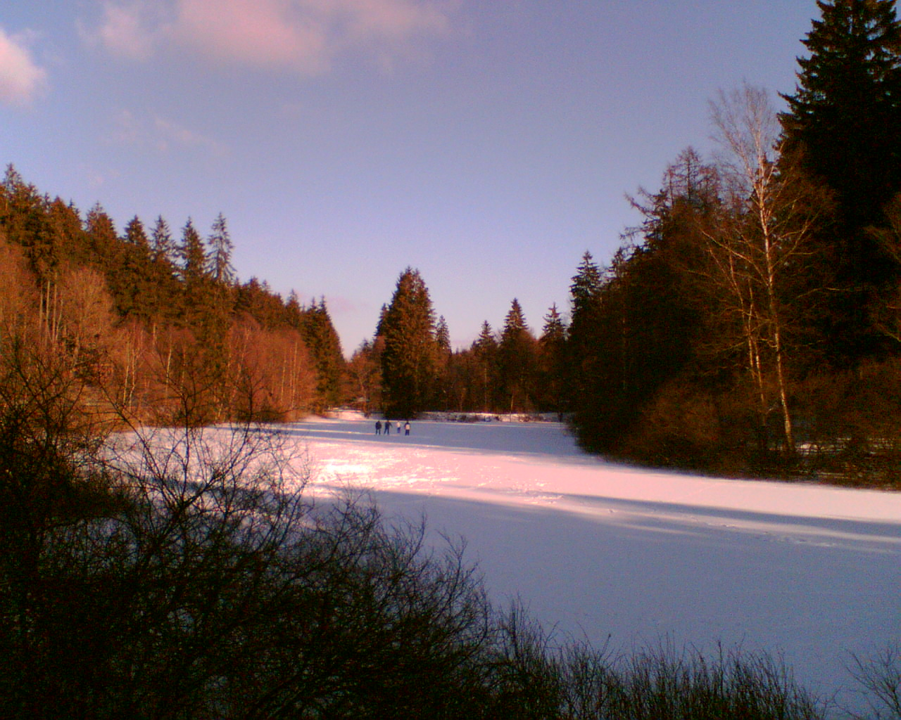 Neuer Teich, lake in Solling hills, Germany, Winter 2011/12